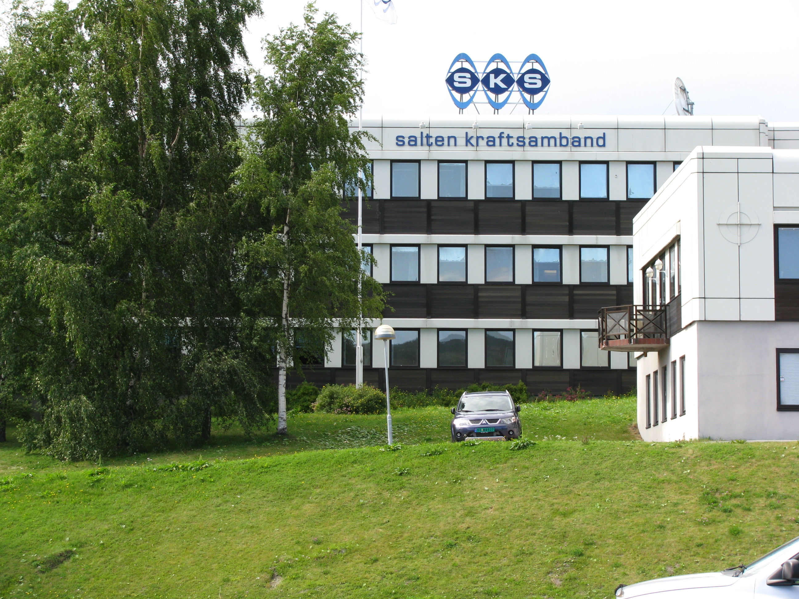 Salten Kraftsamband (power company) building in Fauske, Nordland, Norway.